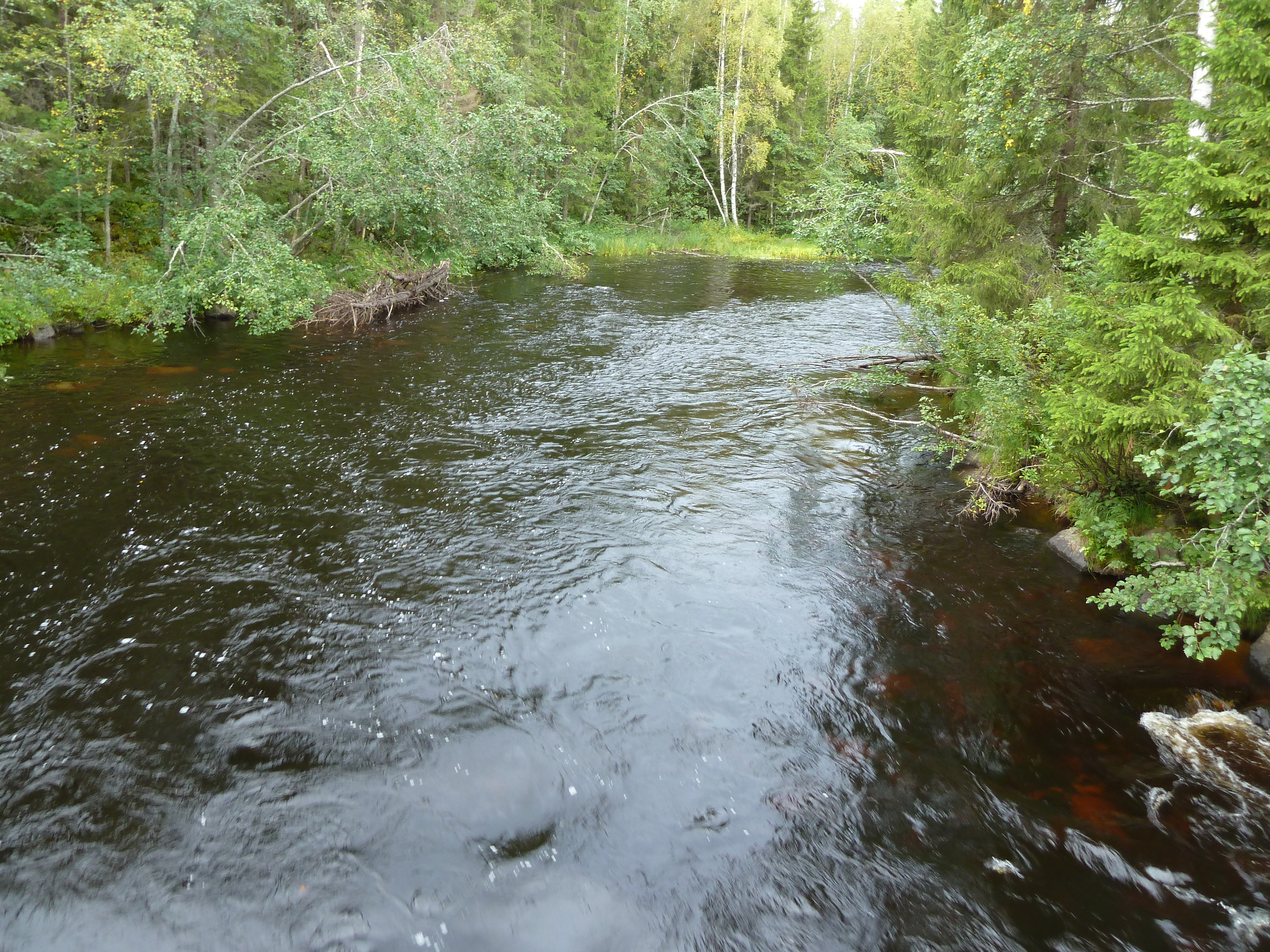 Södra Anundsjöån, Ångermanland, Sweden.